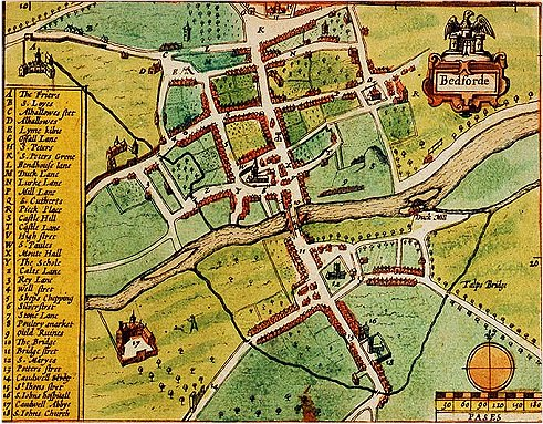 Map of Bedford by John Speed, 1611.